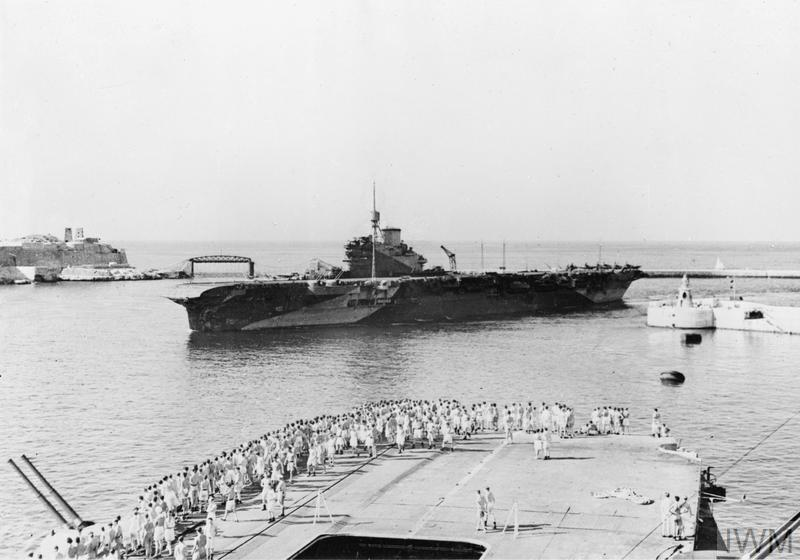 BIG SHIPS AT MALTA. OCTOBER 1943, ON BOARD HMS FORMIDABLE AT GRAND HARBOUR, VALLETTA, MALTA. The aircraft carrier HMS ILLUSTRIOUS steams into Grand Harbour, as men line the flight deck of HMS FORMIDABLE to watch her progress.